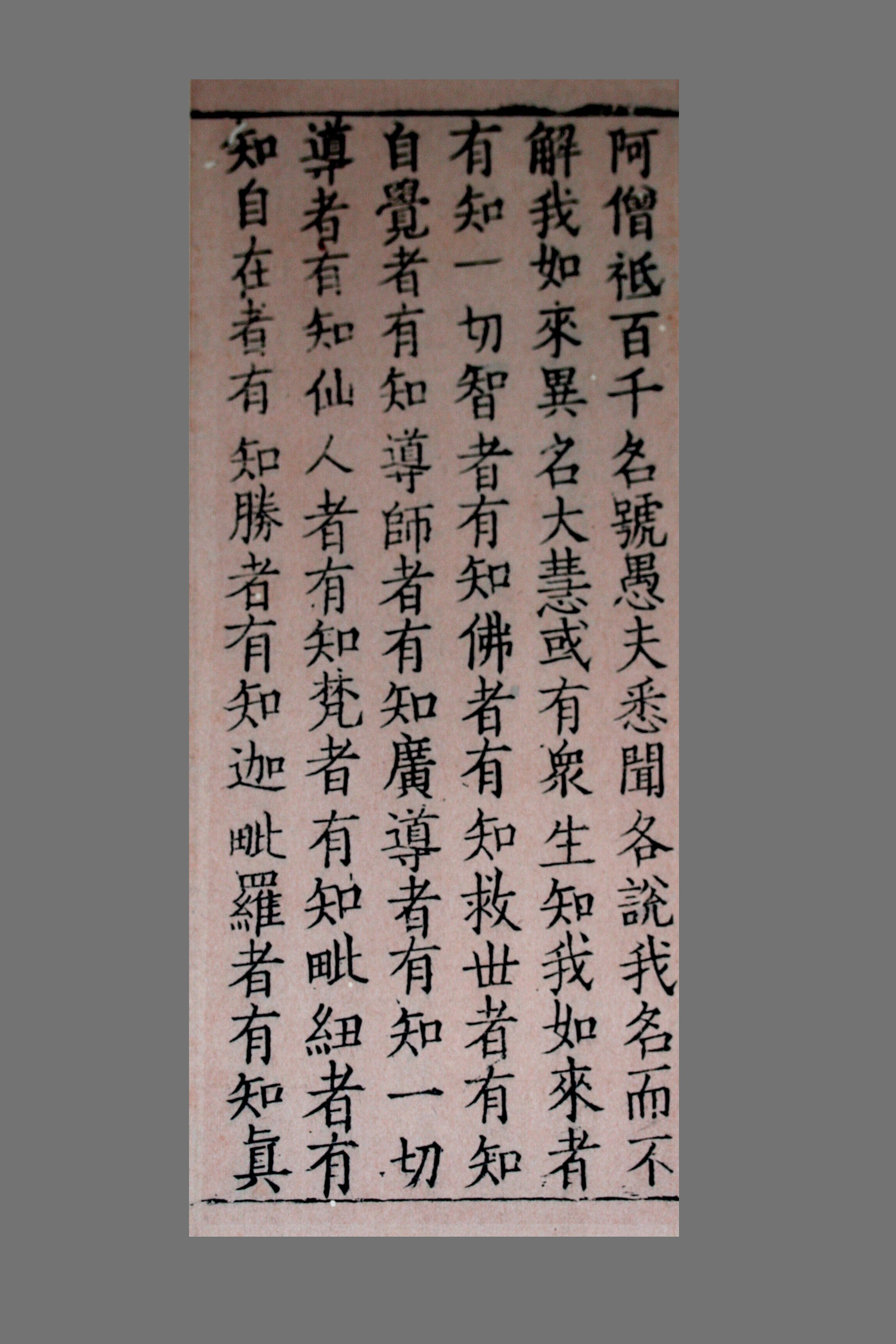 free use